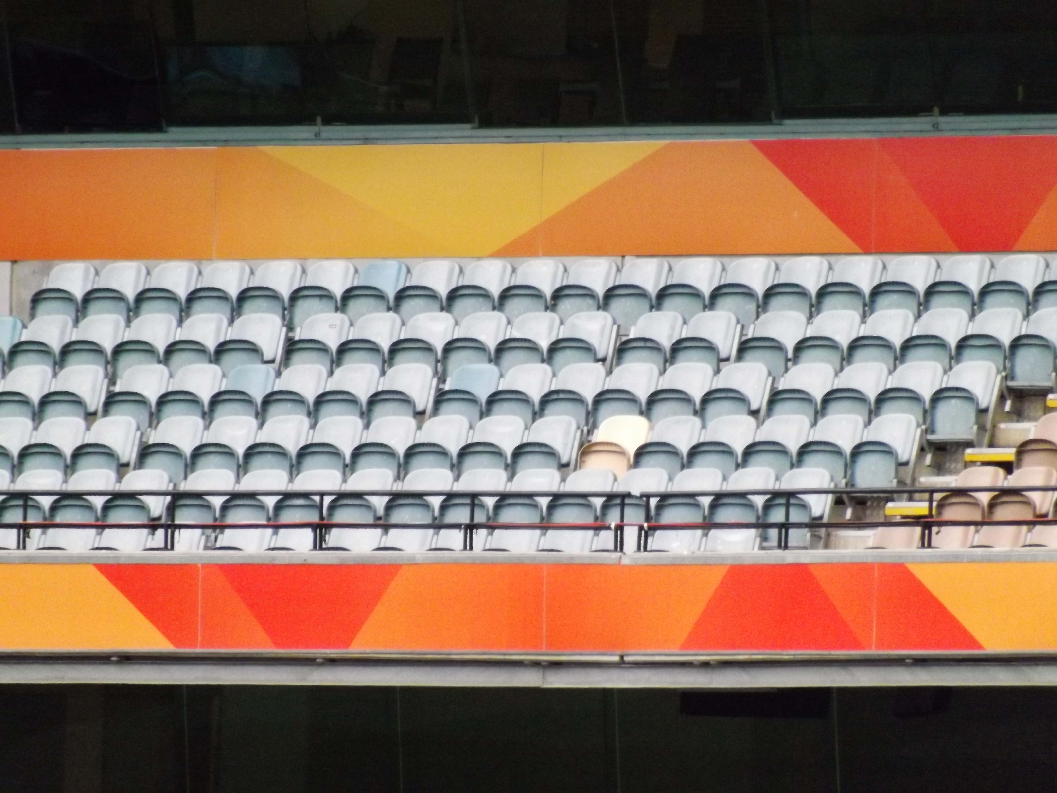 stands at the MCG in Melbourne. The yellow seat marks the biggest six hit at the ground.